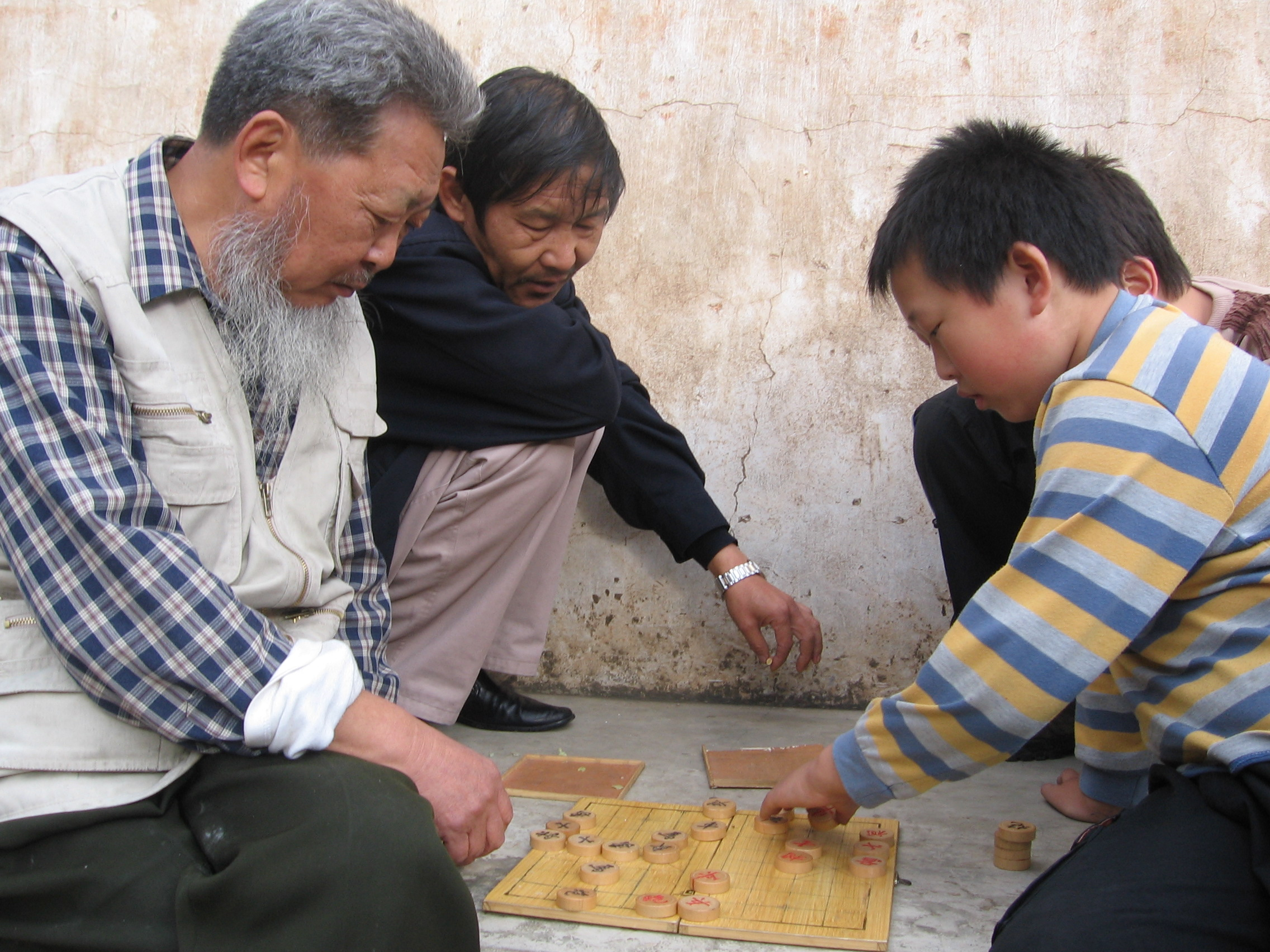 a game of Xiangqi (Chinese Chess) at the foot of the Western Pagoda in Kunming, Yunnan province, China.